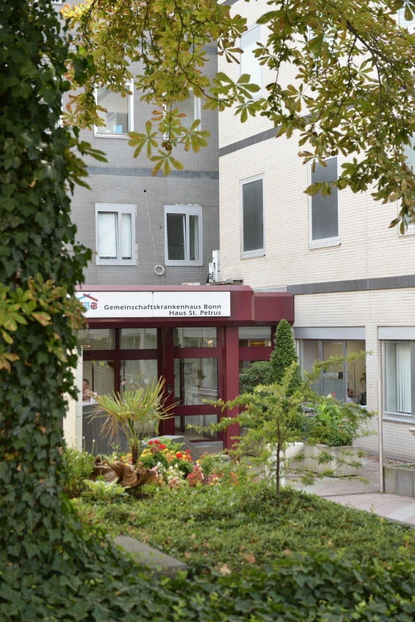 Exterior view of Bonn's St. Petrus Hospital